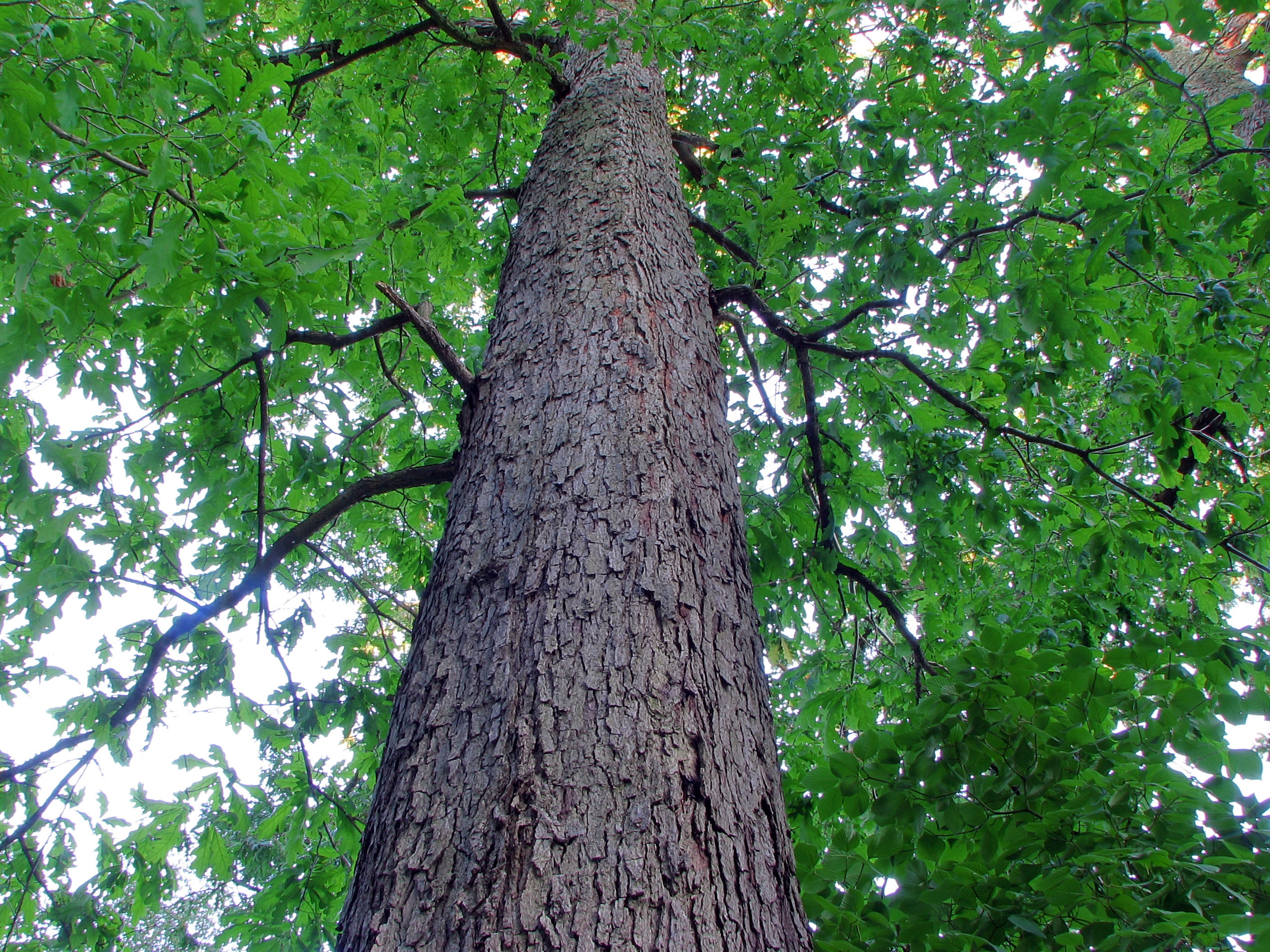 White oak (Quercus alba), Berlin, Germany.